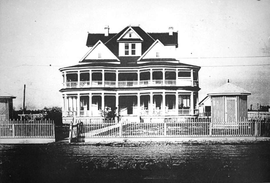 The first official warden's residence at Parchman."The original official residence at Parchman."